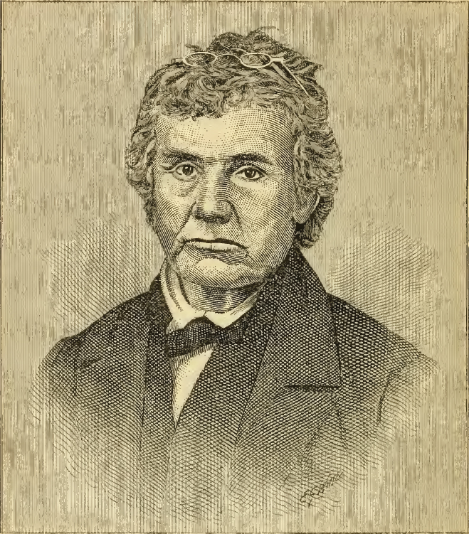 Methodist clergyman Peter Cartwright